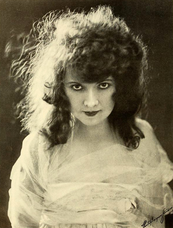 Fannie Ward in The Photo-Play Journal, January 1917